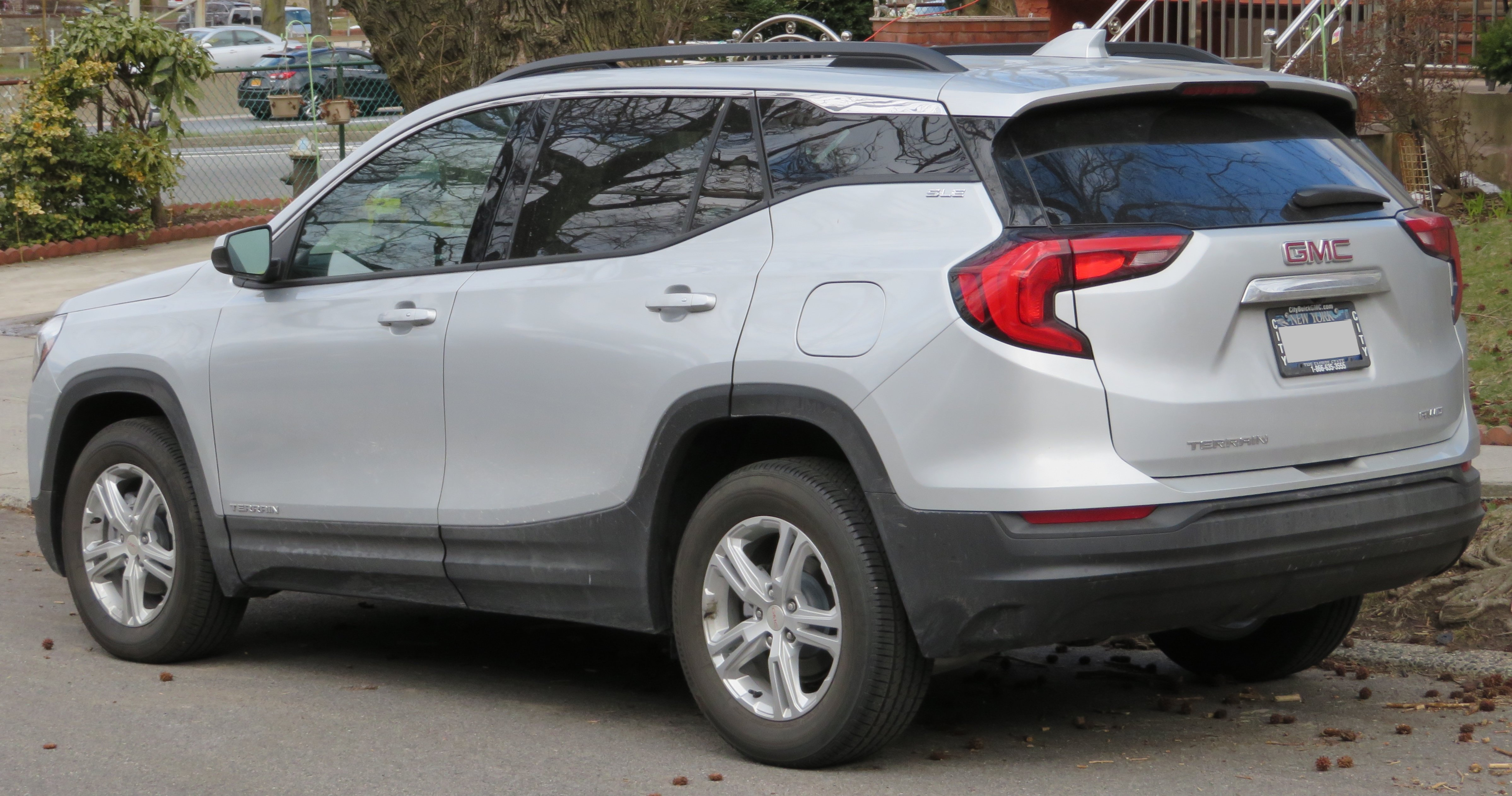 In Queens, New York